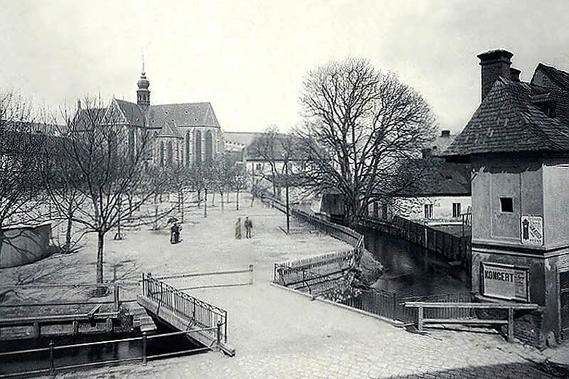 Mendlovo náměstí, Brno, Czech Republic